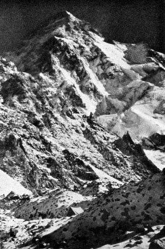 1938 American K2 expedition. Base camp shown in foreground. First published in India in the Himalayan Journal in 1939 and not previously published.